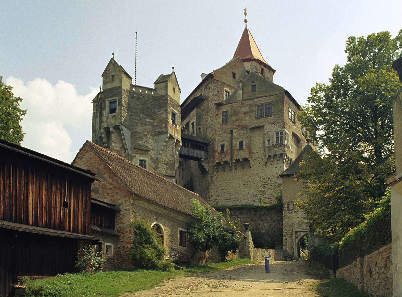 Pernstejn Castle